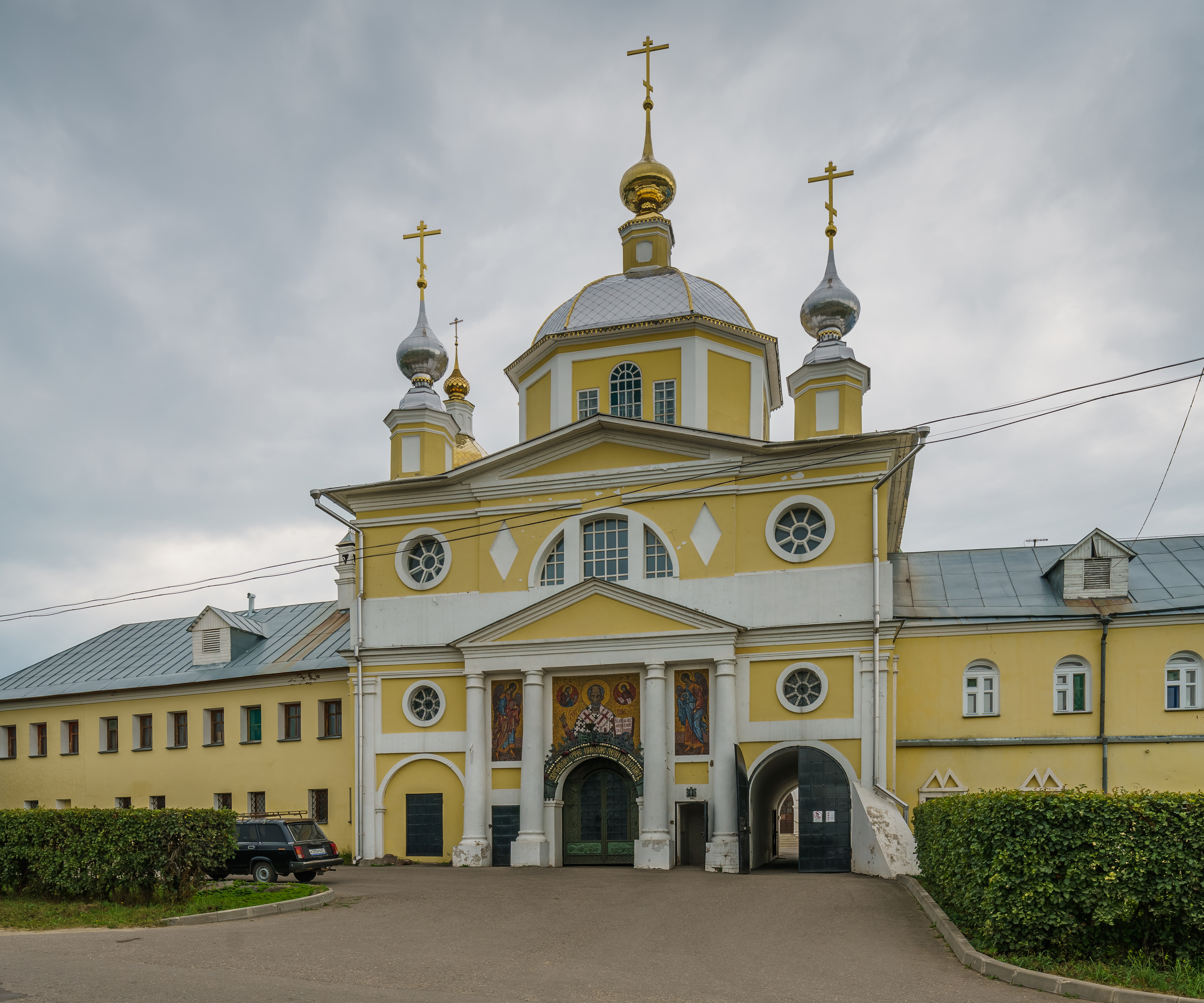 Nikolo-Shartomsky Monastery in Vvedenye, Ivanovo Oblast, Russia: gate church